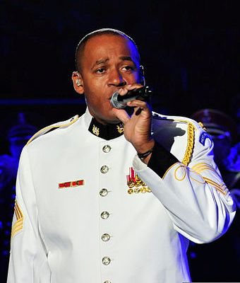 Army Master Sgt. Caleb B. Green III, , a member of the U.S. Army Band Downrange, performs in the Army Spirit of America show at the Greensboro Coliseum, Greensboro, N.C., Sept. 13, 2012.